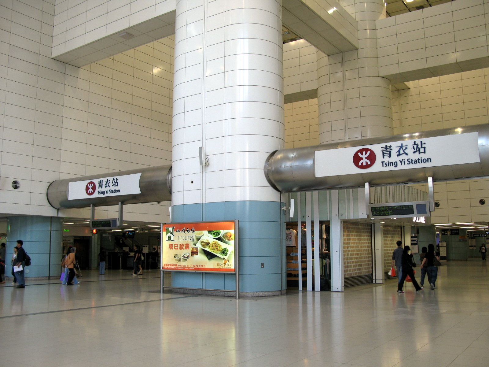 HK MTR Tsing Yi Station Enterance